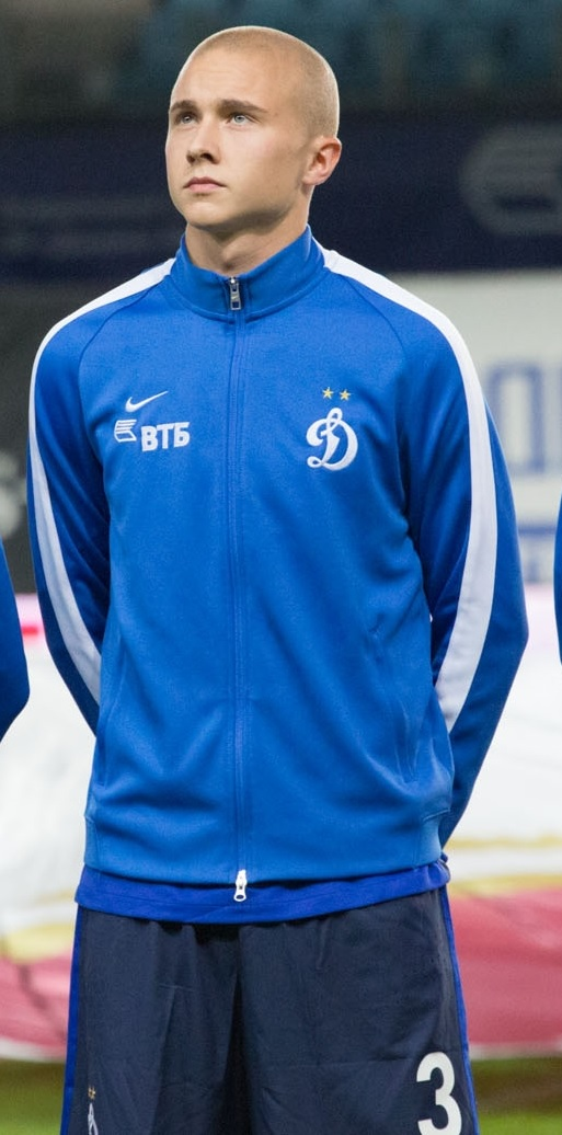 Sebastian Holmén with FC Dynamo Moscow before the game against FC Terek Grozny on 14 March 2016.